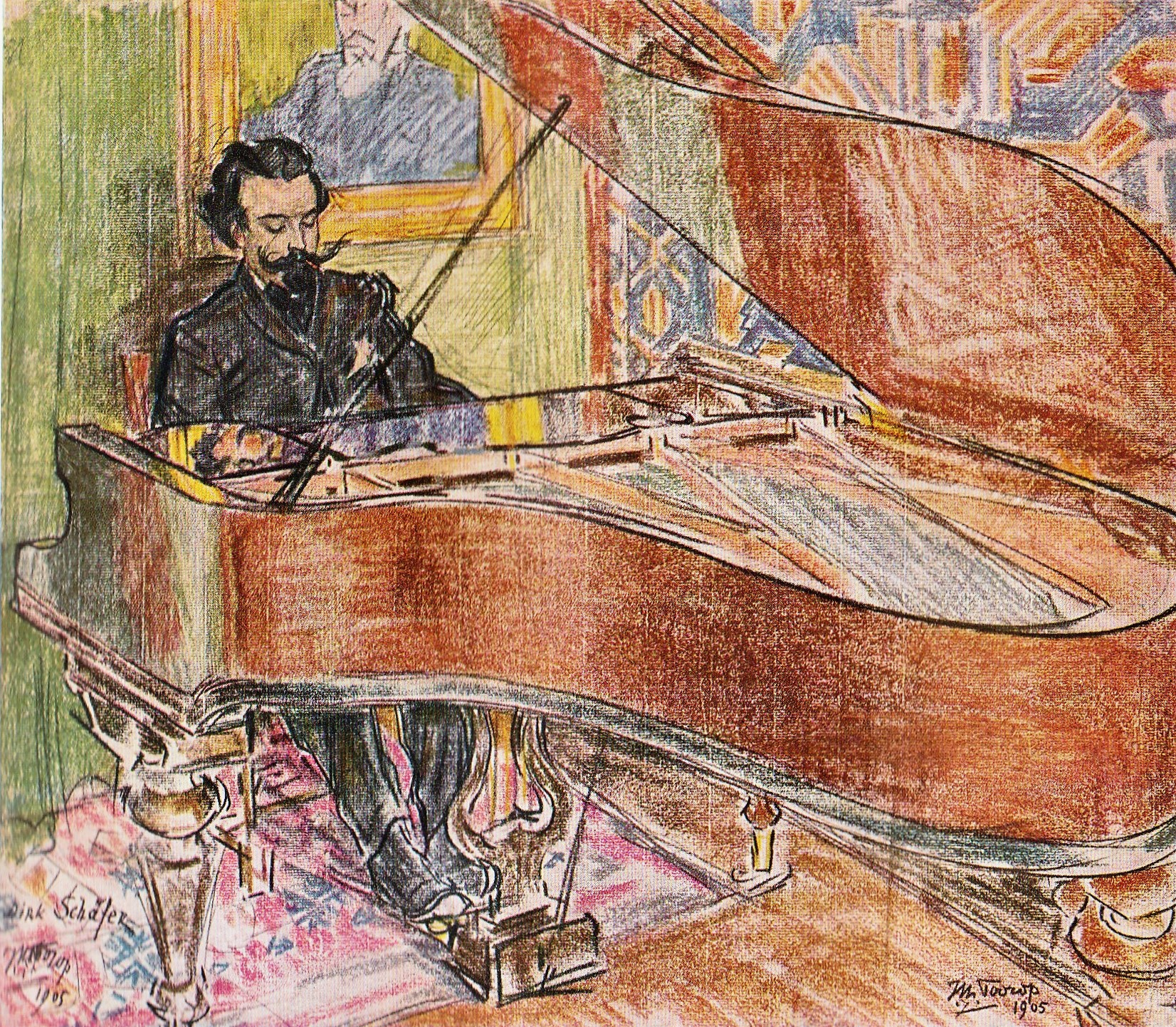 Pianist Dirk Schäfer portrayed by Jan Toorop (1905)